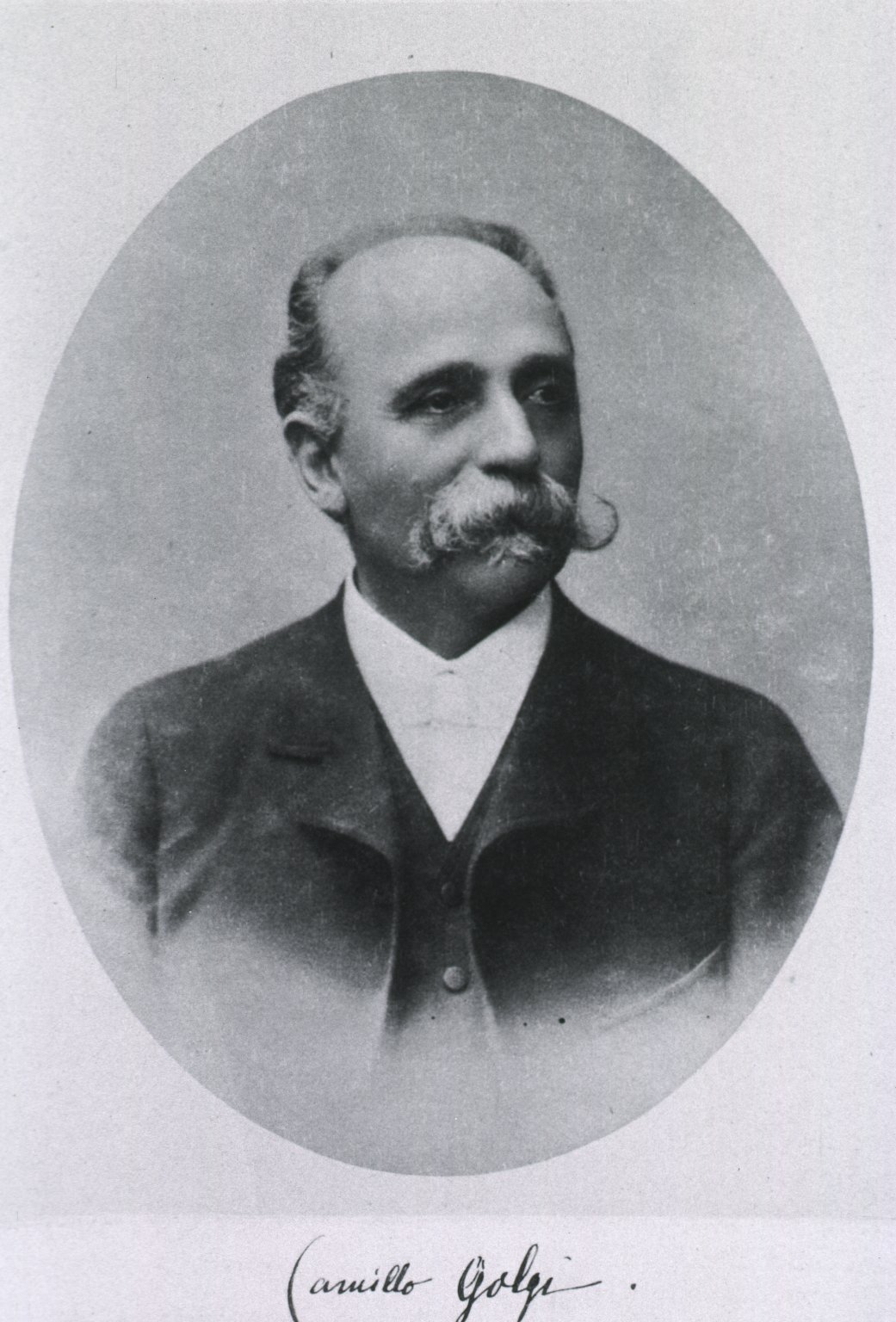 Camillo Golgi